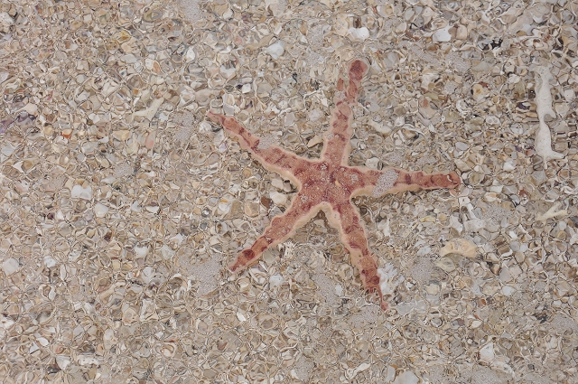 Starfish on the Beach of Île aux Cerfs